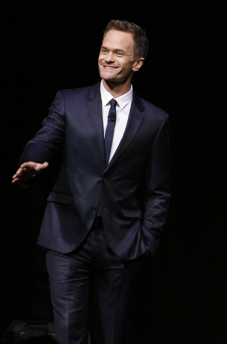 Neil Patrick Harris at the 'Art of the Pixel' New-Media Competition, September 2014 w/ US release of the LG 65-Inch 4K Ultra HD Smart OLED TV